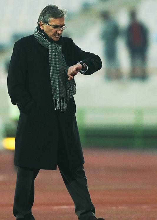 Branko Ivanković coaching Persepolis against Gostaresh, Azadi Stadium, Tehran